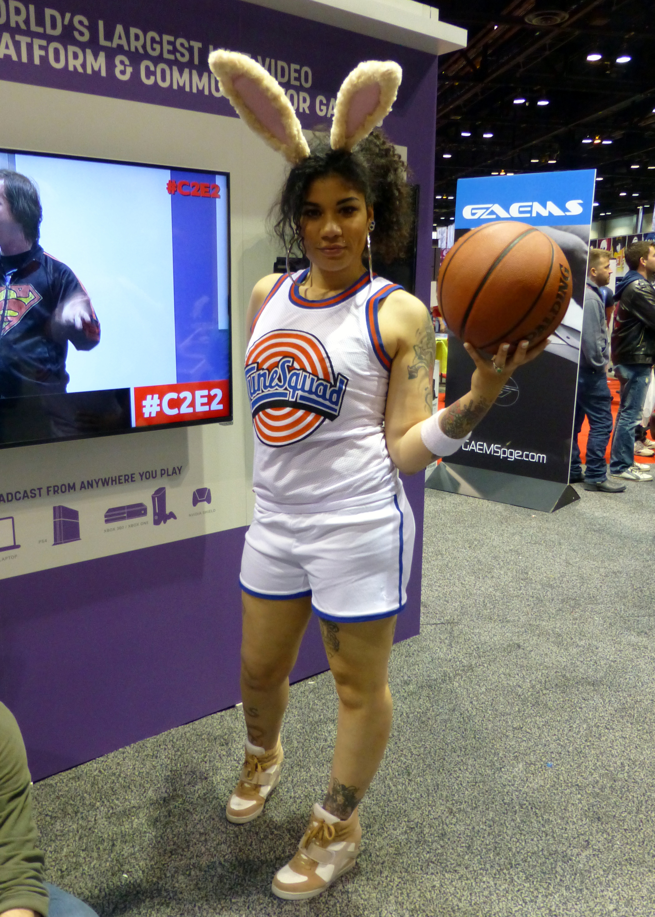 Lola Bunny Cosplay at Chicago Comic & Entertainment Expo (C2E2) 2014.